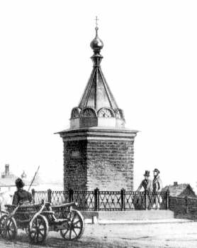 A reproduction of a painting depicting the St. Irene monument in Kyiv